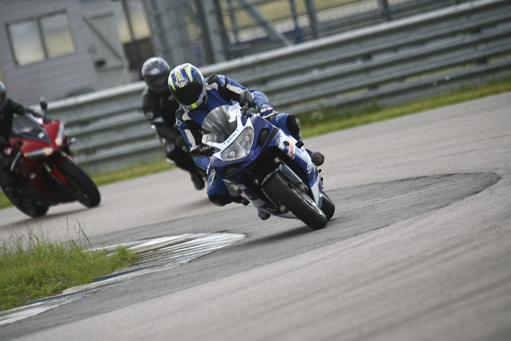 A motorbike track day at Rockingham Motor Speedway.